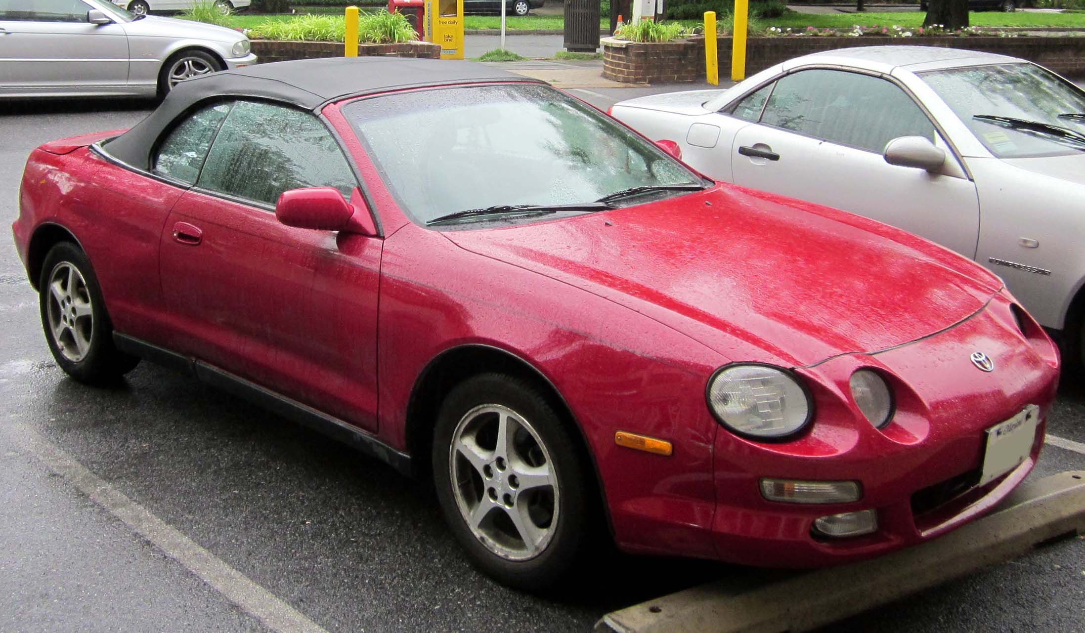 1996-1999 Toyota Celica GT Convertible (ST204) shown in Renaissance Red, photographed in Washington, D.C., USA.